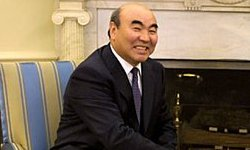 Askar Akayev, the first President of Kyrgyzstan.